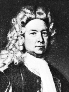 picture of 'Diamond' Thomas Pitt. Detail of a print after an oil painting by Sir Godfrey Kneller